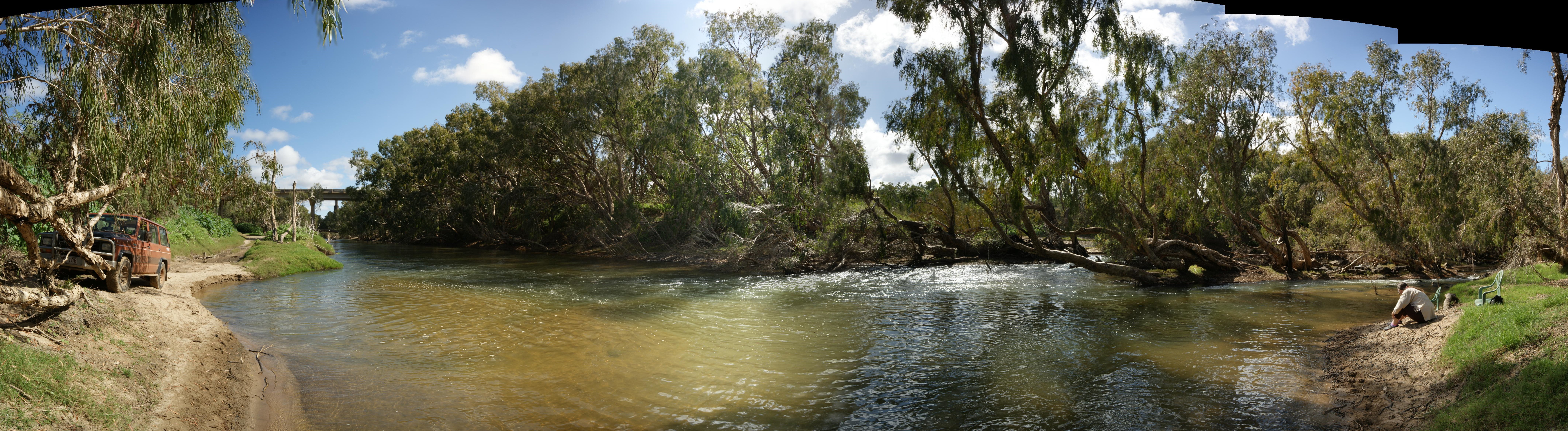 Panorama of the Bowen River from Newlands, Queensland. 180° 9 frames